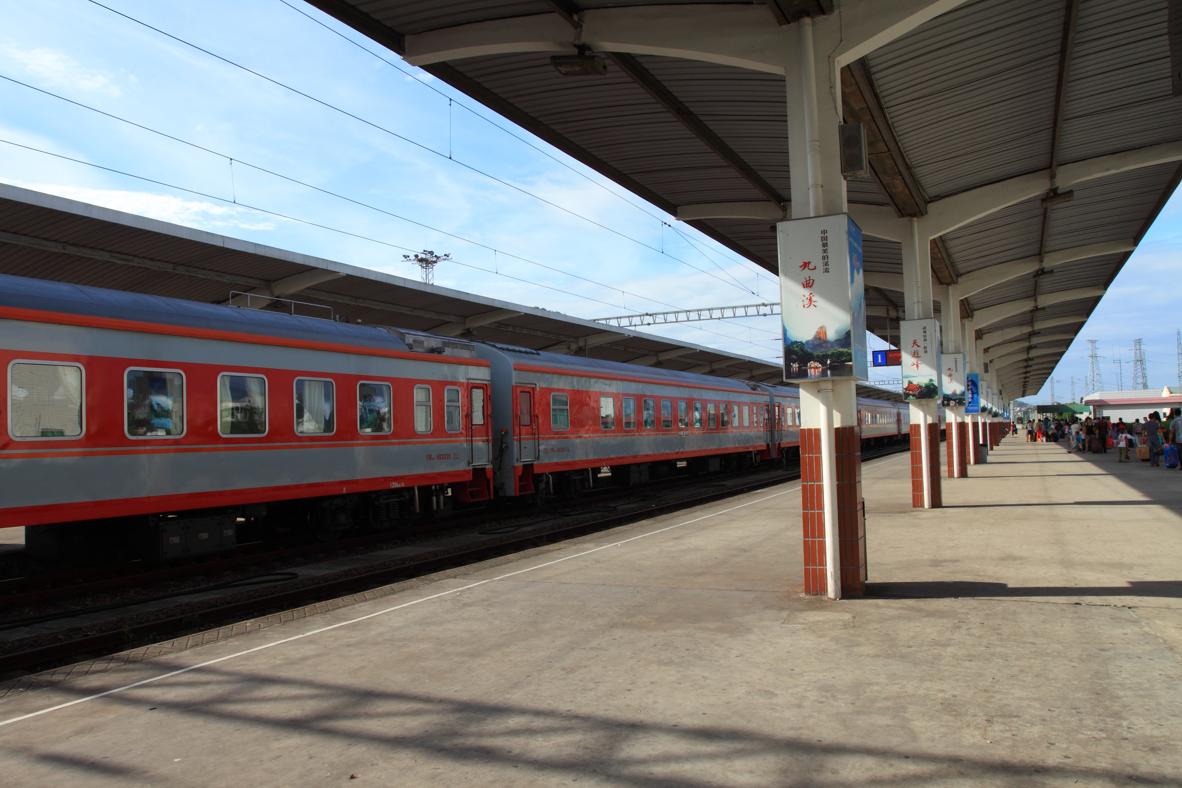 Wuyishan Railway Station, in Wuyishan, Fujian, China.